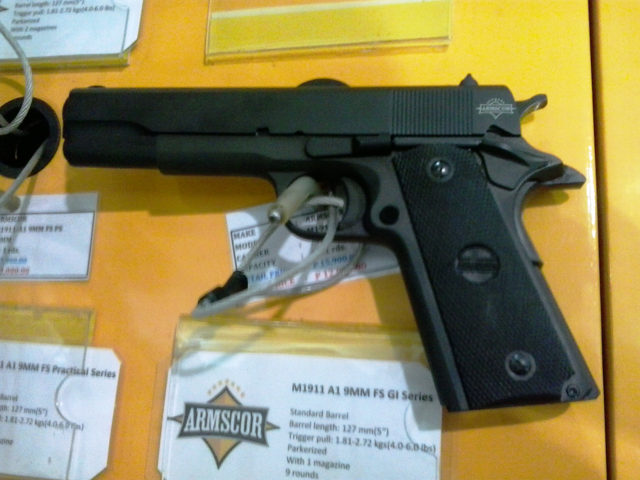 An Armscor 1911A1 9mm FS GI model on display during the 22nd Defense & Sporting Arms Show